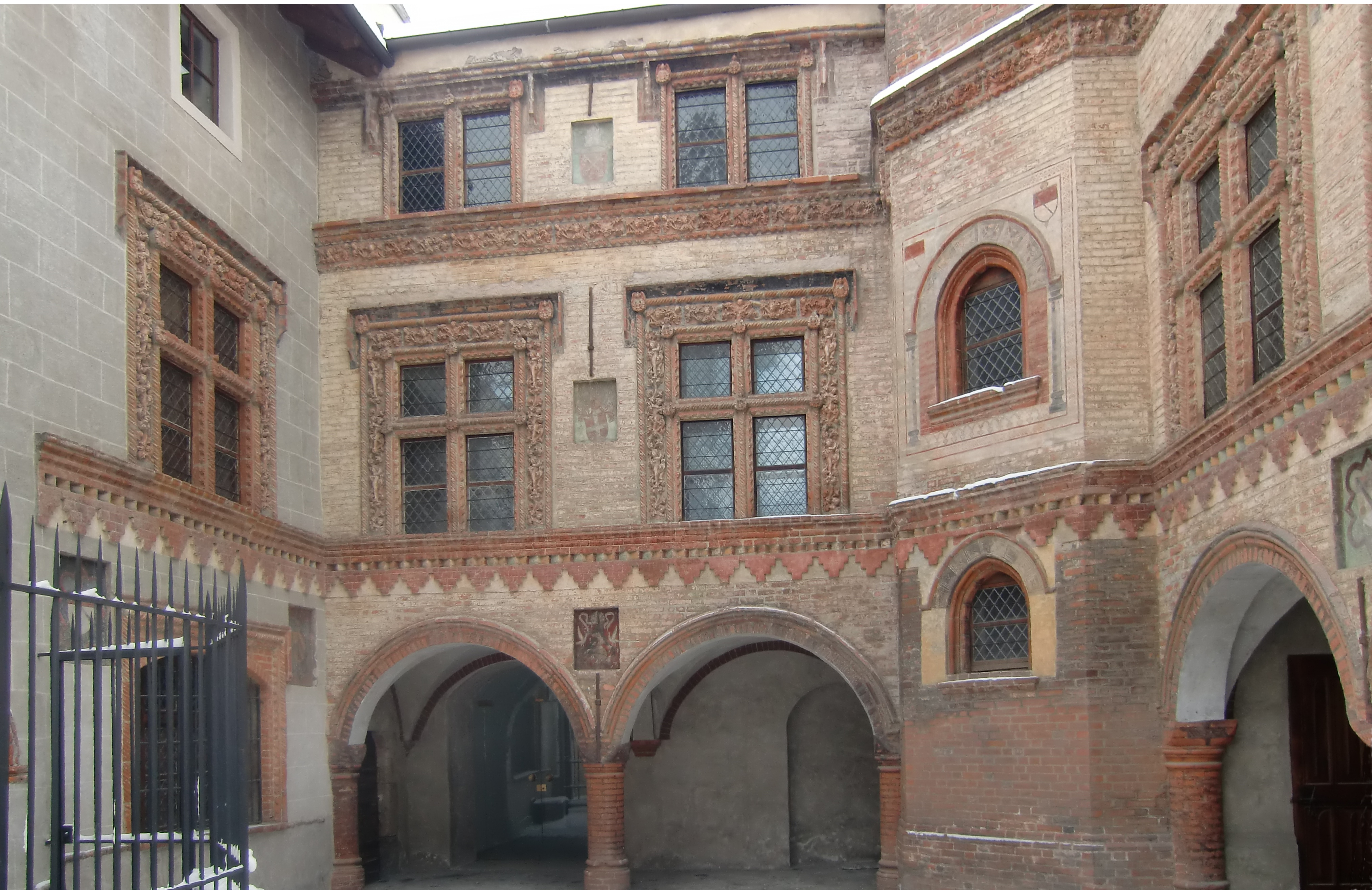 Priorato di Sant'Orso, XV century, Aosta, Italy